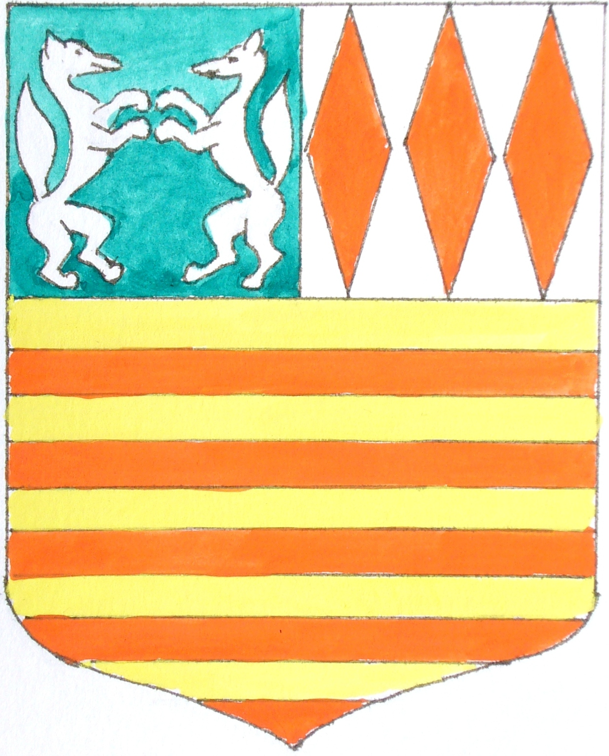 Gerardus Vossius coat of arms